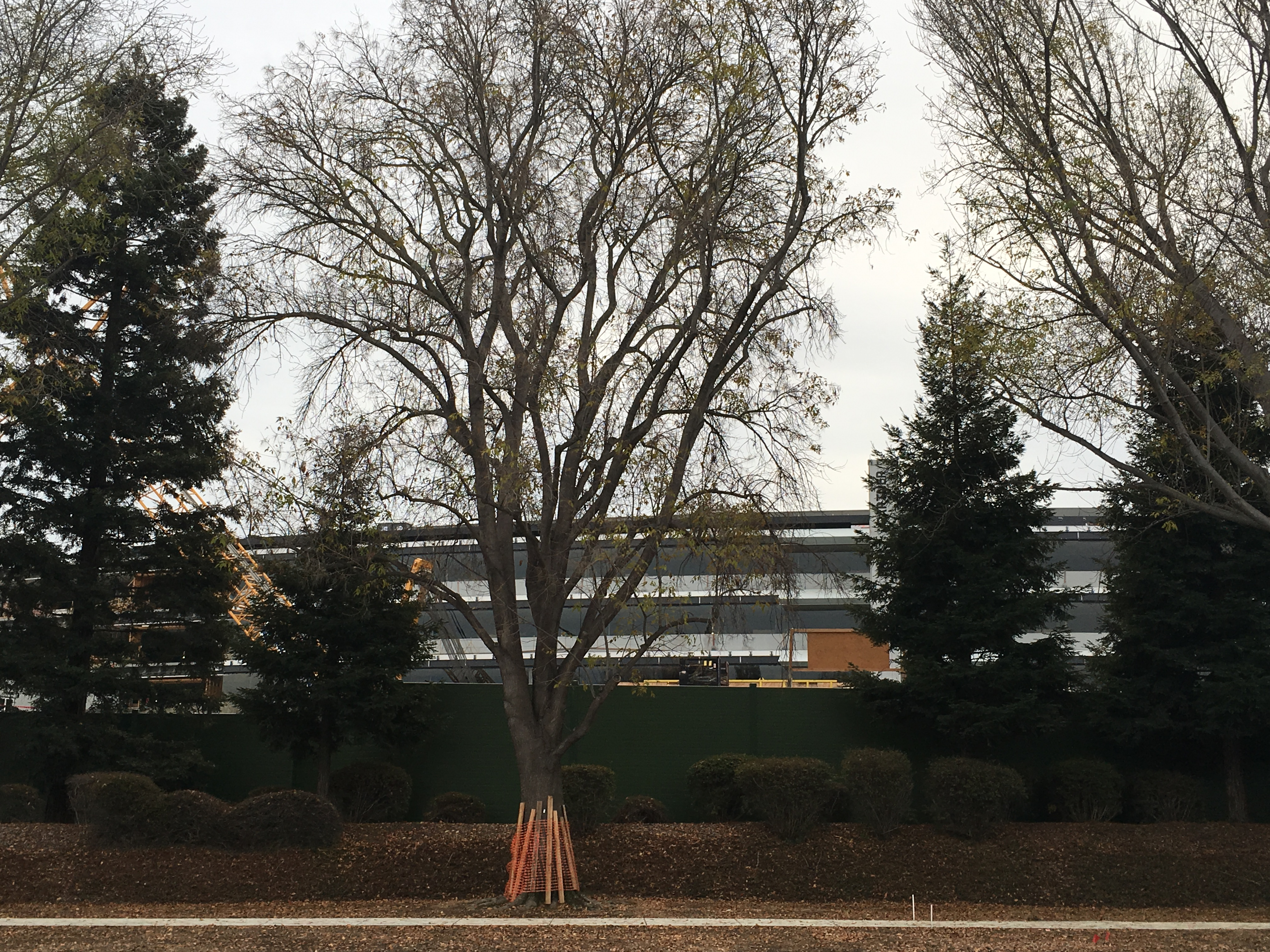 This is a picture of Apple Campus 2 under construction